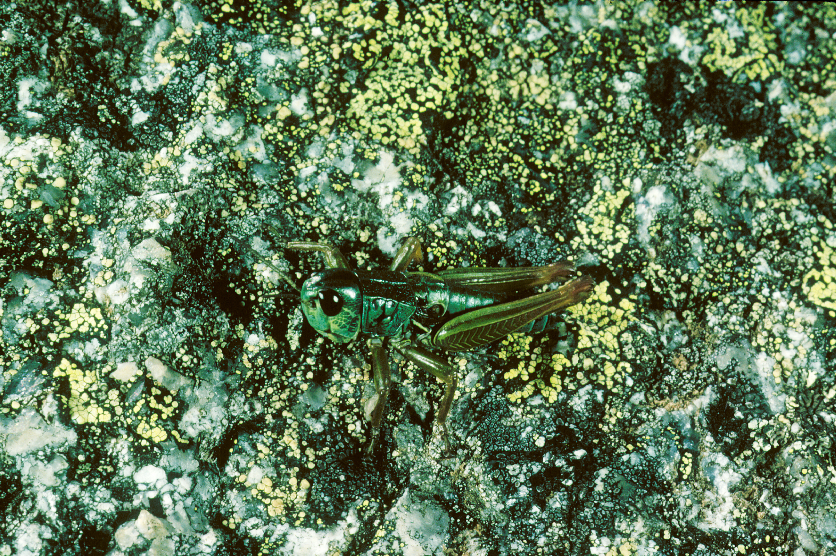 The Alpine Thermocolour Grasshopper - Kosciuscola tristis -sitting on a piece of granite. Photographer: Dave Rentz